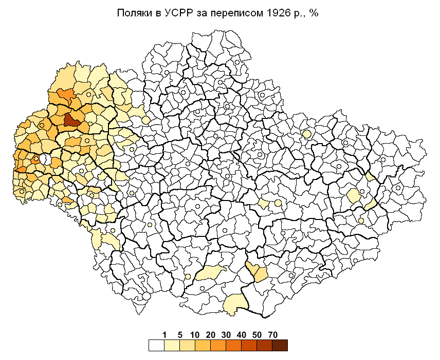 Percentage of ethnic poles in Ukrainian SSR by raions, 1926 soviet census